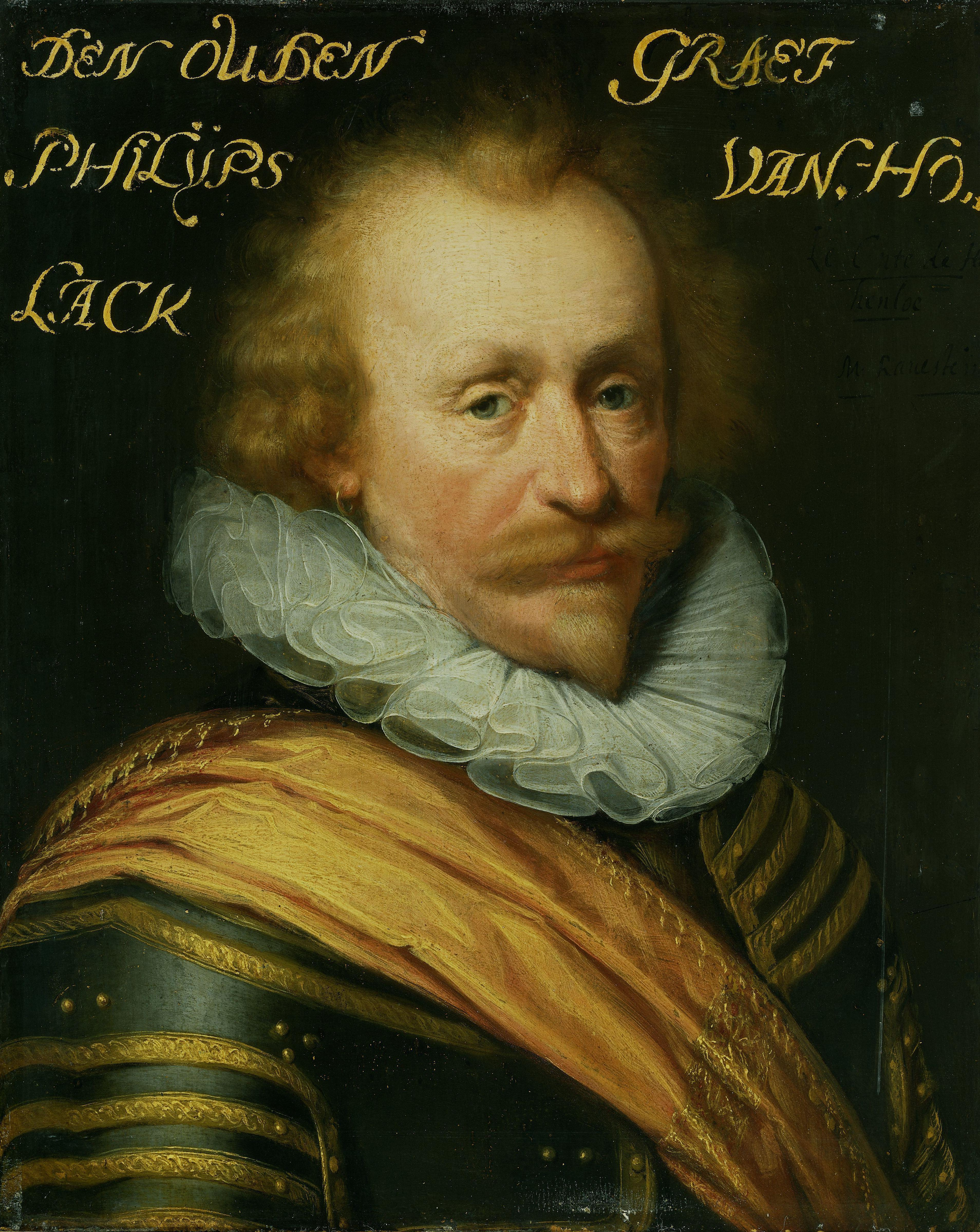 Portrait of Philip of Hohenlohe-Neuenstein (1550–1606). Part of the Leeuwarden series, a series of portraits of military officials from the Eighty Years' War as well as members of the House of Orange-Nassau, first documented in 1633 in the Stadhouderlijk Hof (Stadholder's Court) in Leeuwarden (see Object history).